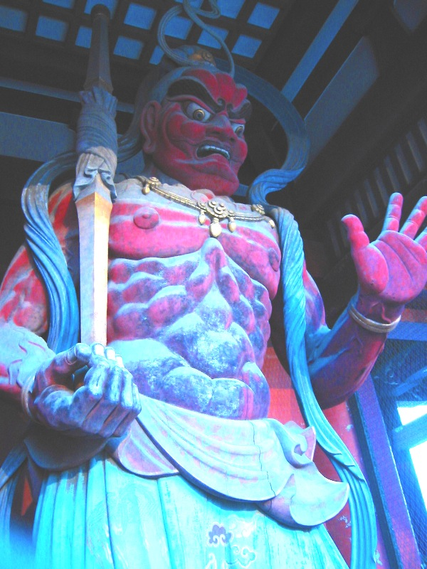 Shukongooshin, Asakusa Temple, Tokyo, Japan.